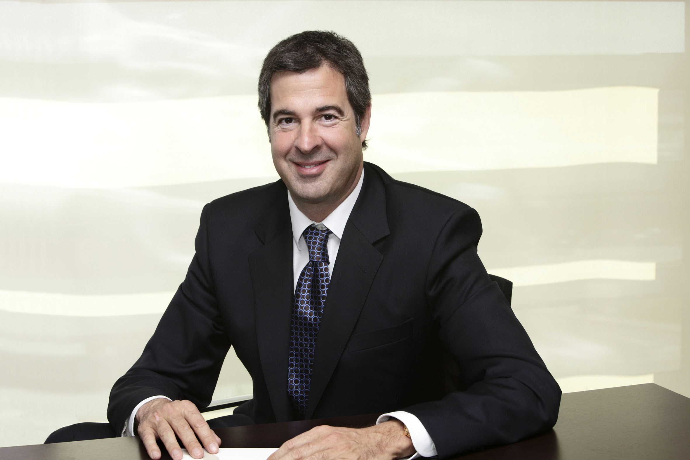 Albert Ollé 01